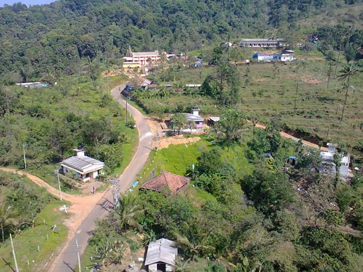 Sky view